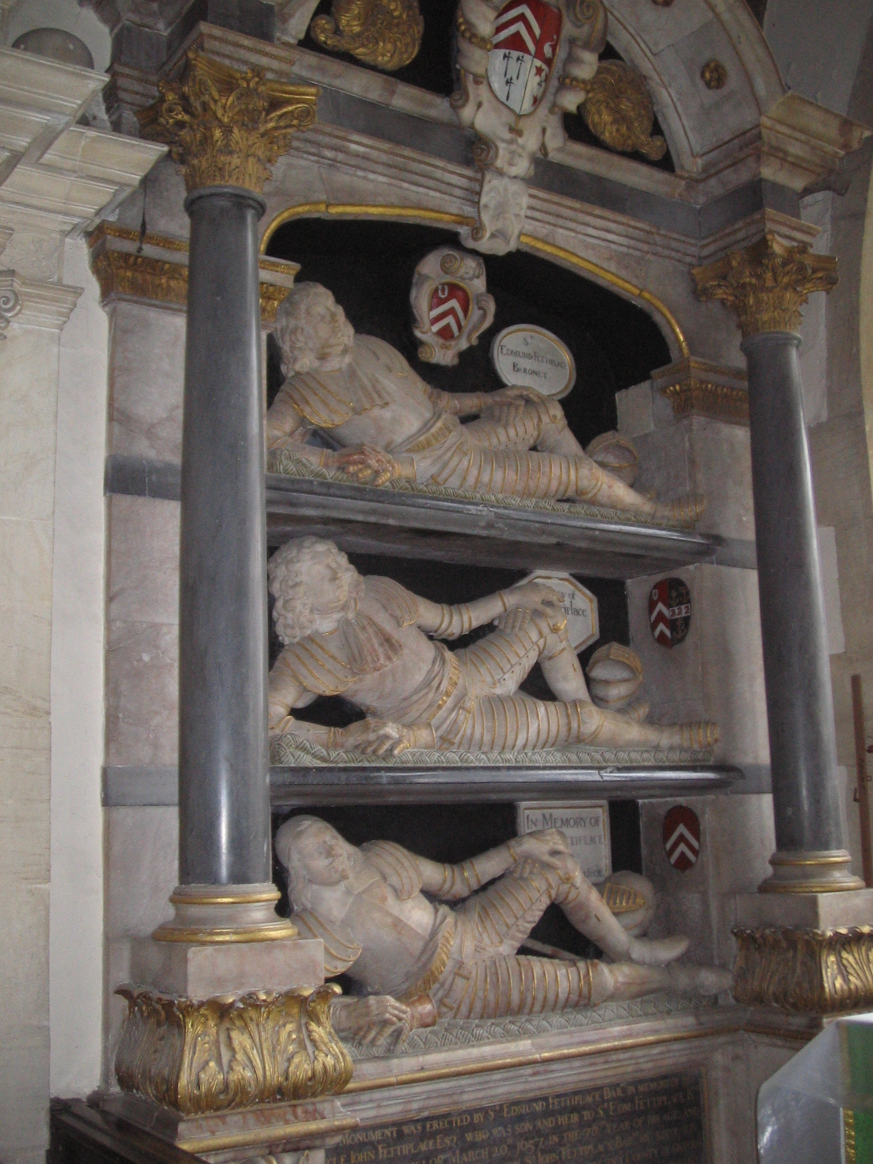 Church of England parish church of St. Mary, Swinbrook, Oxfordshire: early 17th-century monuments to Sir Edmund Fettiplace (died 1613) and his father and grandfather.